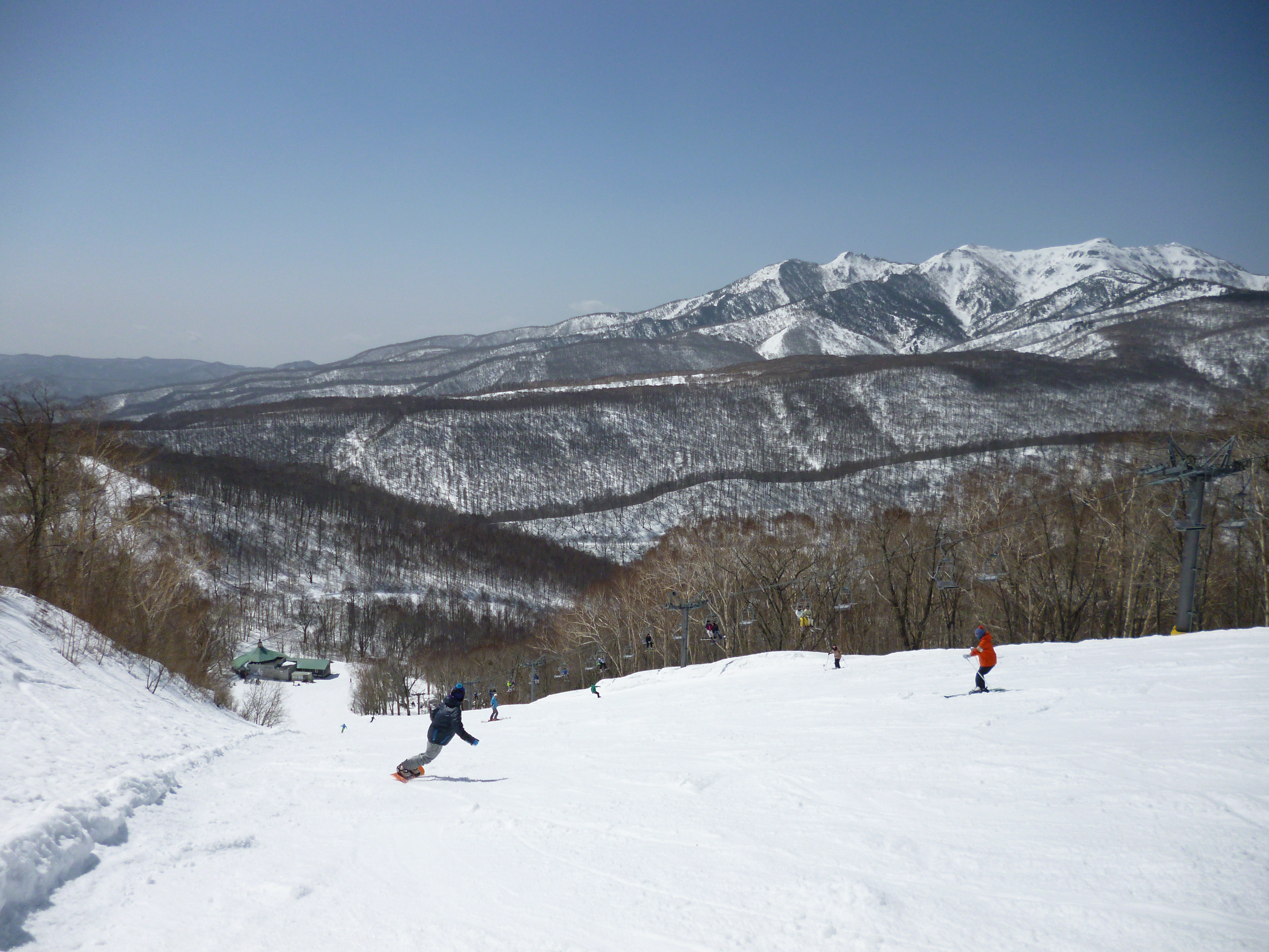 White World Oze Iwakura and Mt. Joshu-Hotaka in Katashina, Gunma, Japan.